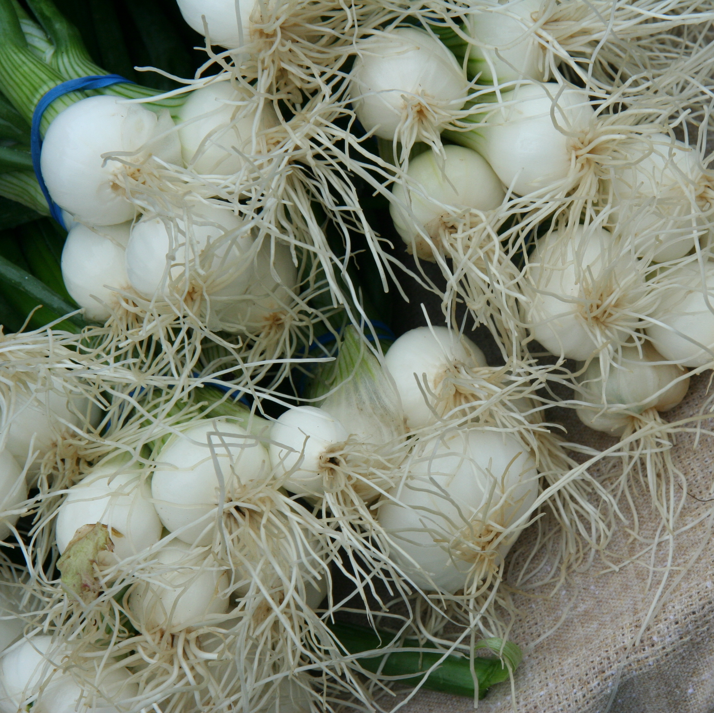 The bulbs and roots of spring harvest whole onions on sale at an outdoor farmers' market in Rochester, Minnesota